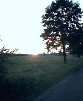 Derevnaja, Drogichin District, Brest Region, Belarus; sunset near the village